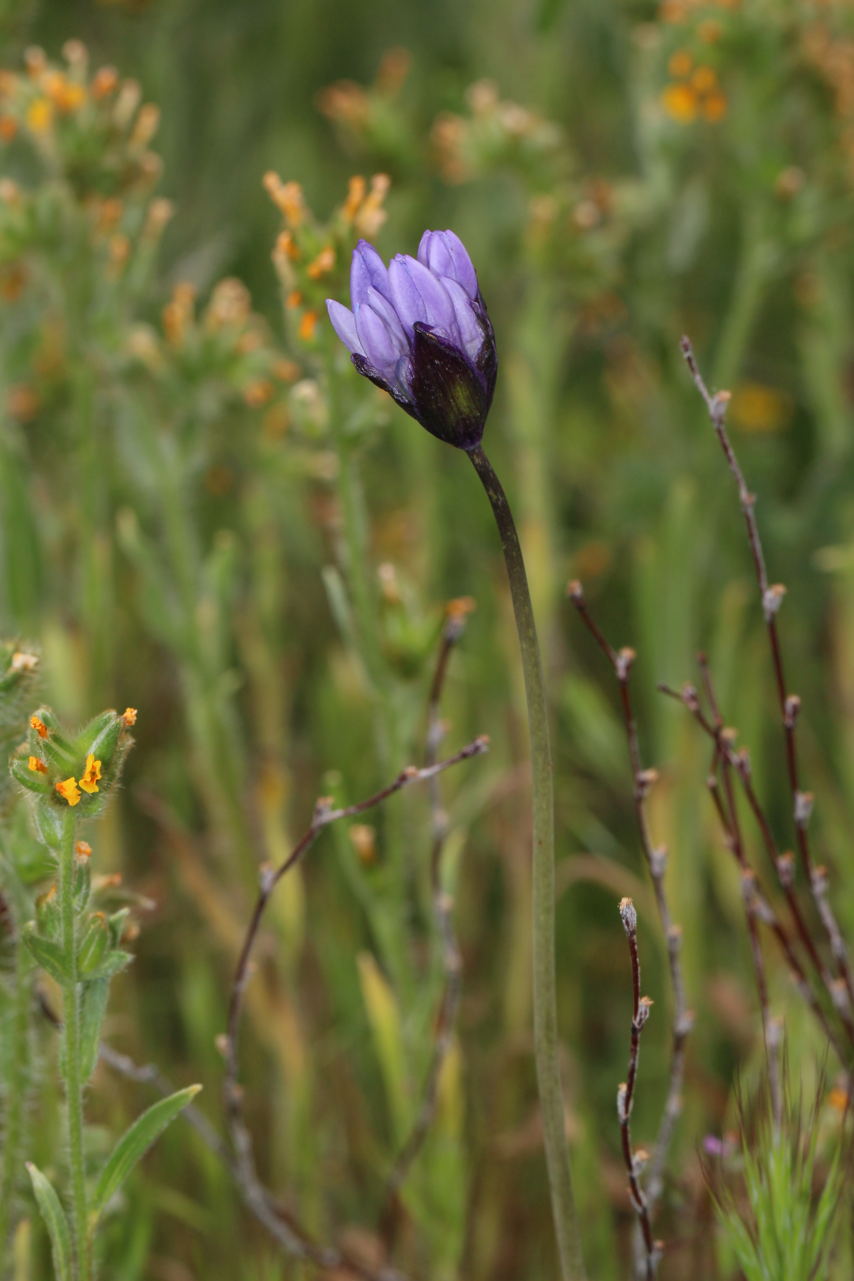 Blue Dicks Identification by: Linda Edwards and Vern Benhart Viewpoint location: Antelope Valley California Poppy State Reserve, Lancaster, California Viewpoint elevation: 868 meter (2848 ft) Location source: Garmin GPSmap 60CSx Location Datum: WGS84